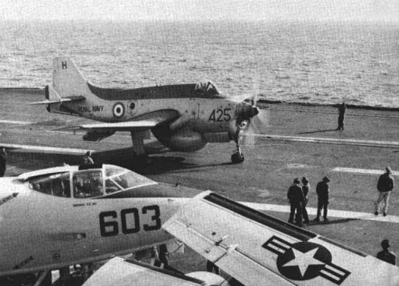 A Royal Navy Fairey Gannet AEW.3 from 849 Naval Air Squadron, C Flight, assigned to the aircraft carrier HMS Hermes (R12), on deck of the U.S. Navy aircraft carrier USS Forrestal (CVA-59) in the Mediterranean Sea, circa 1962. The U.S. Navy carriers Forrestal and USS Enterprise (CVAN-65) were conducting joint operations with Hermes and HMS Centaur (R06).